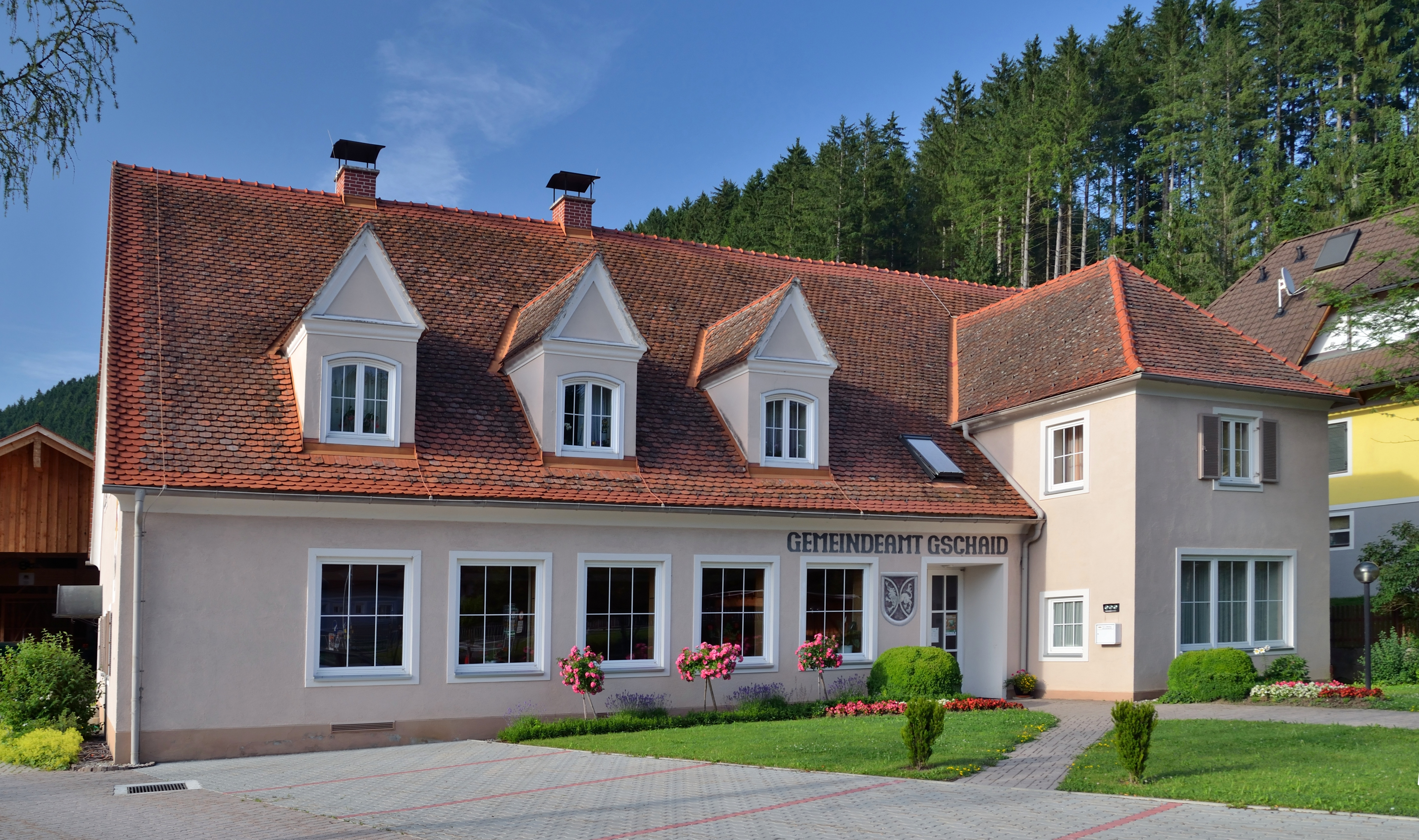 Municipal office of Gschaid bei Birkfeld, Styria